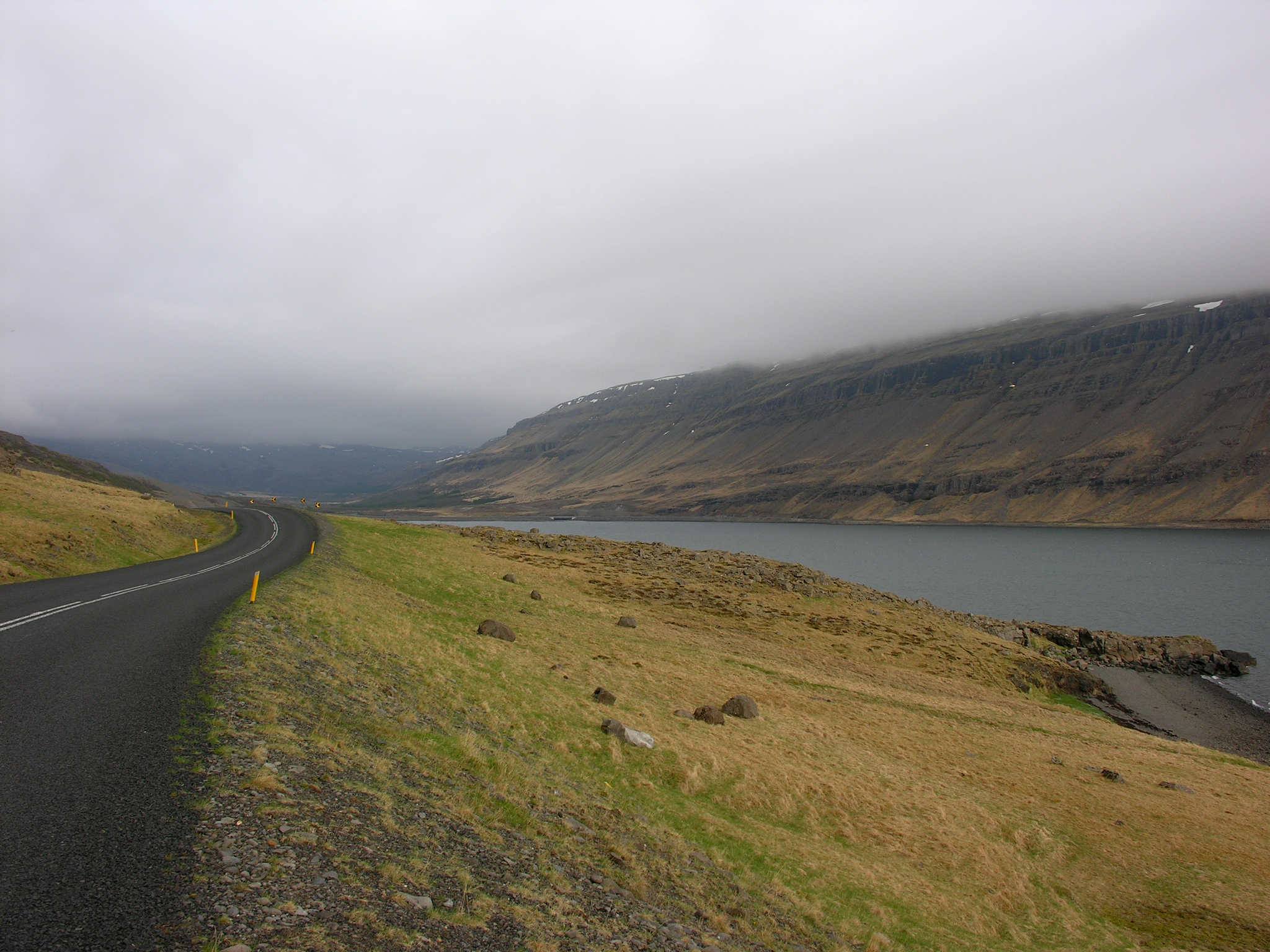 Iceland, impressions along road 47 around Hvalfjörður in Iceland